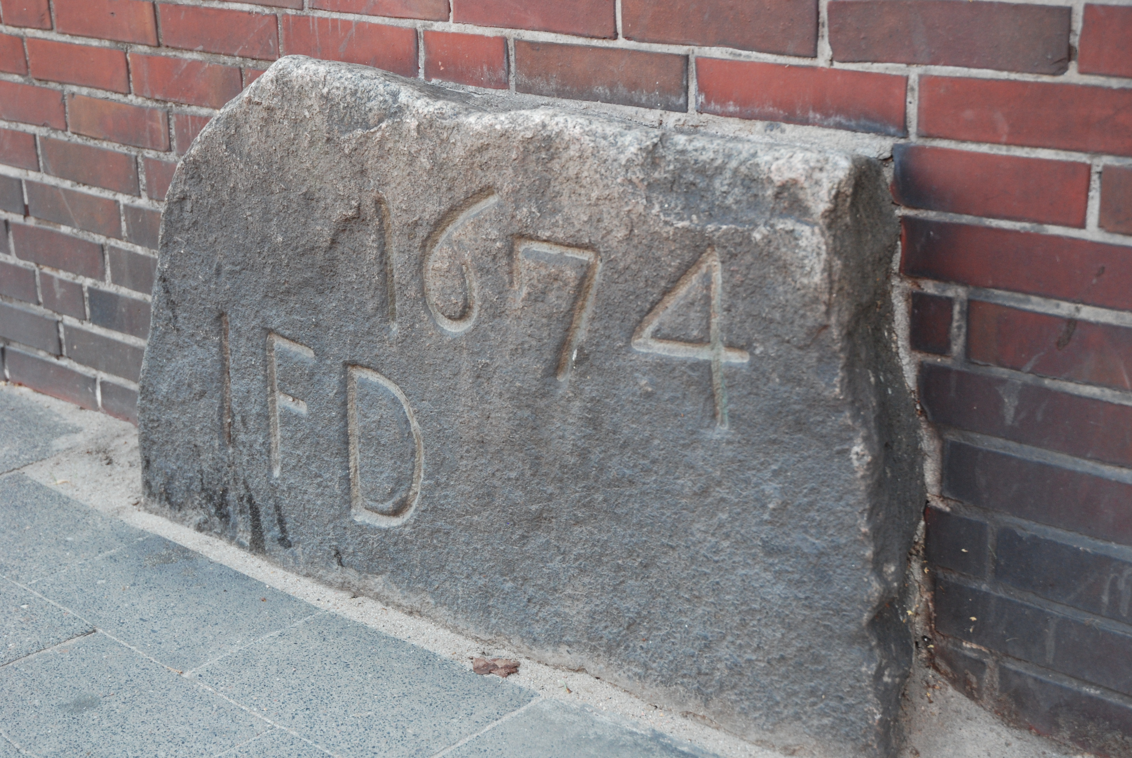 Boundary stone on the corner Glückstädter Street / Bleeck, in Bad Bramstedt, Germany; inscription: "1674 IFD"